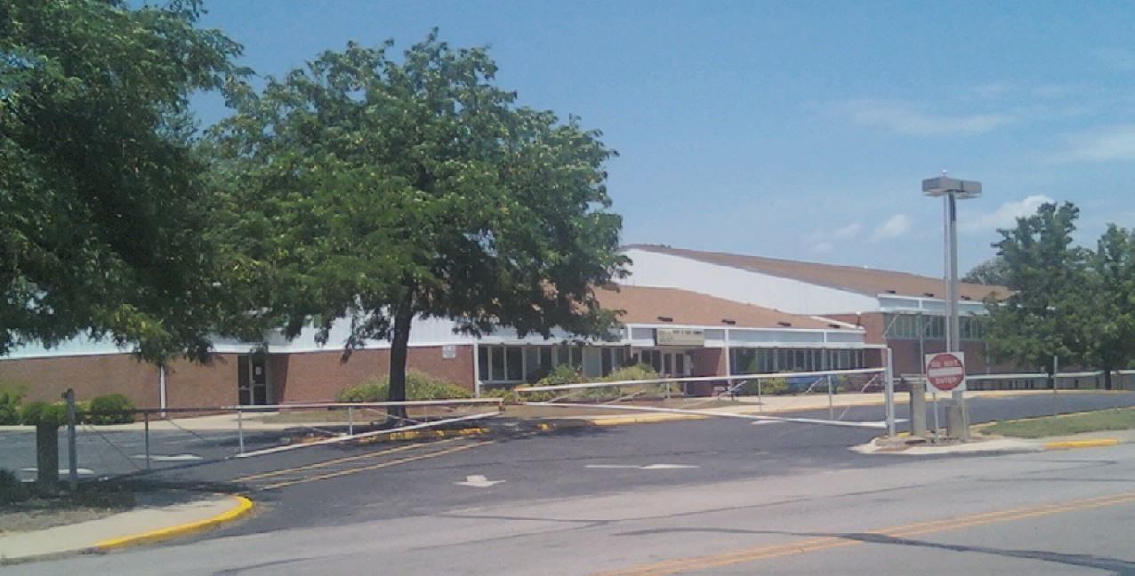 Francisco School 6/27/2010